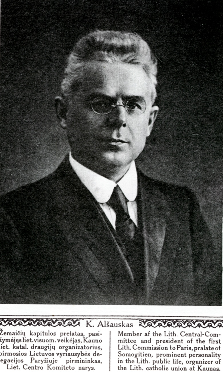 Konstantinas Olšauskas, Lithuanian clergyman, diplomat